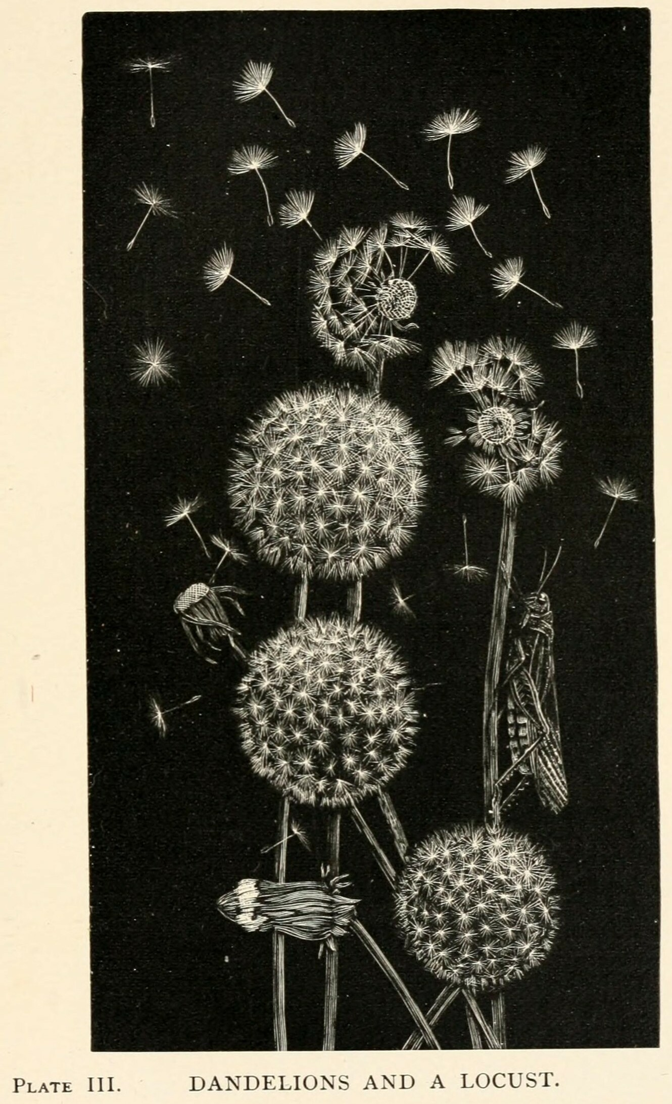 PLATE III. DANDELIONS AND A LOCUST.